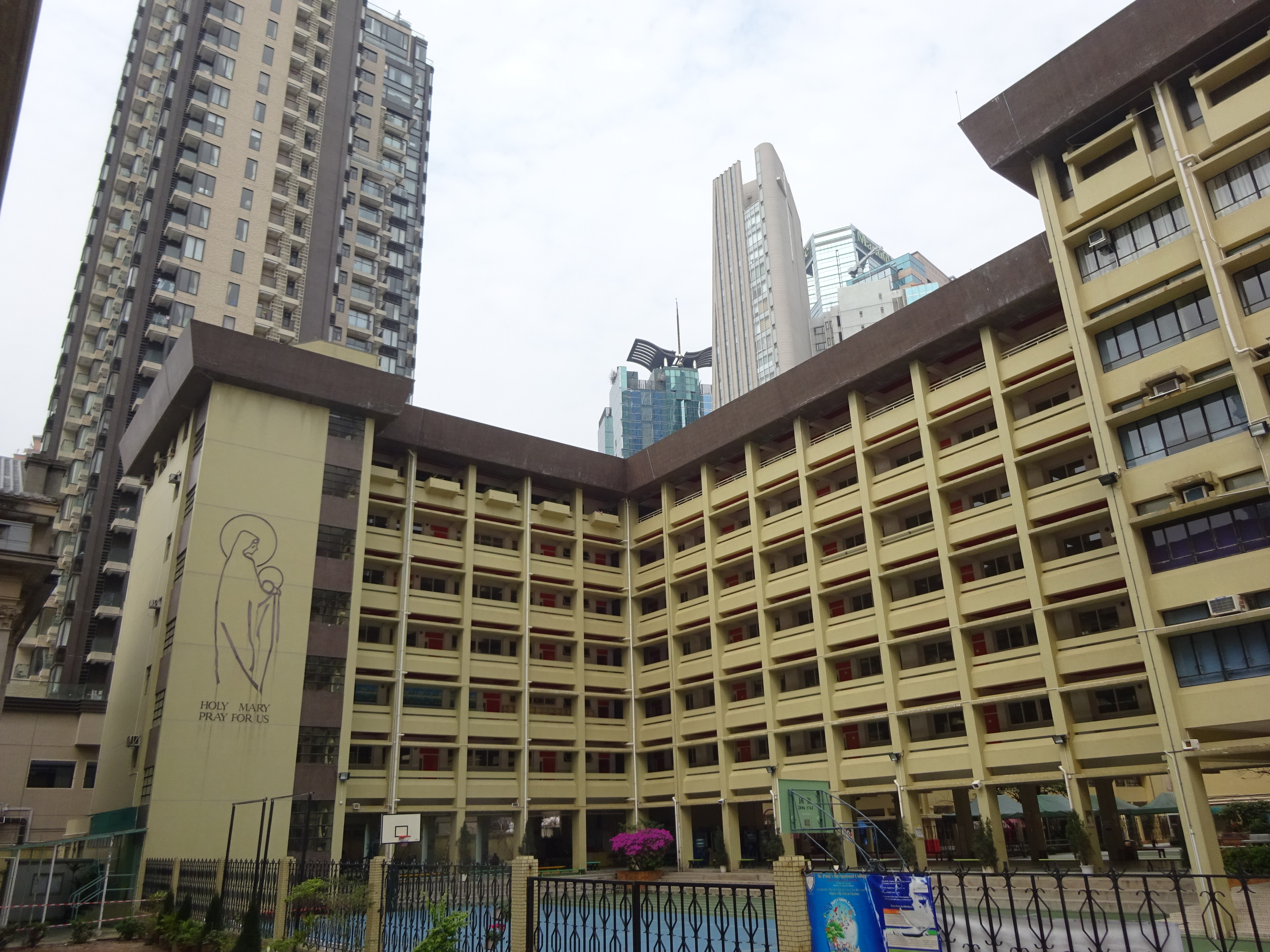 HK CWB 基督君皇小聖堂 Christ The King Chapel 聖保祿學校 St Paul's Convert School March 2016